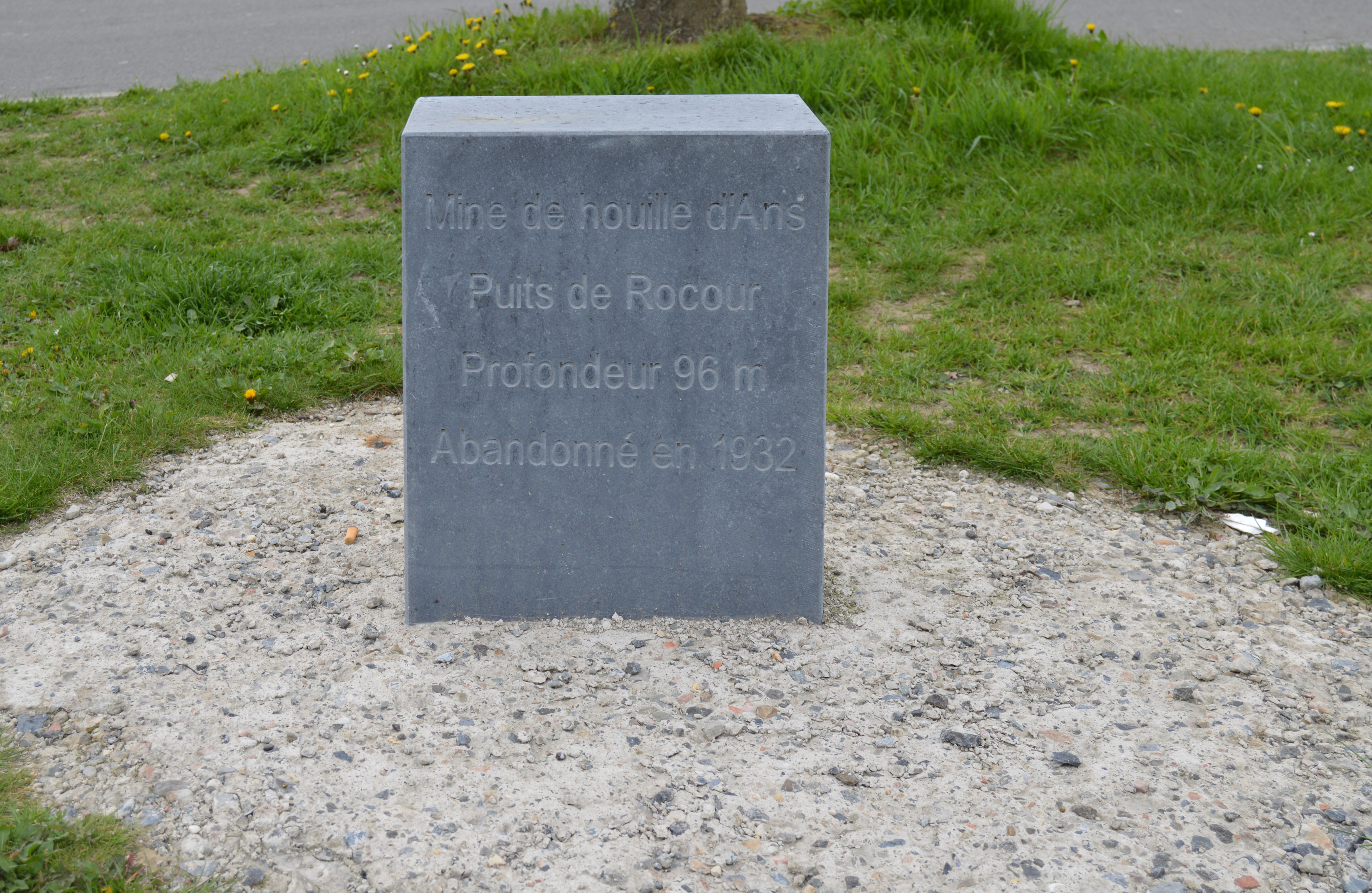 Ancient pit of the Rocourt coal mine, in Liège, Belgium